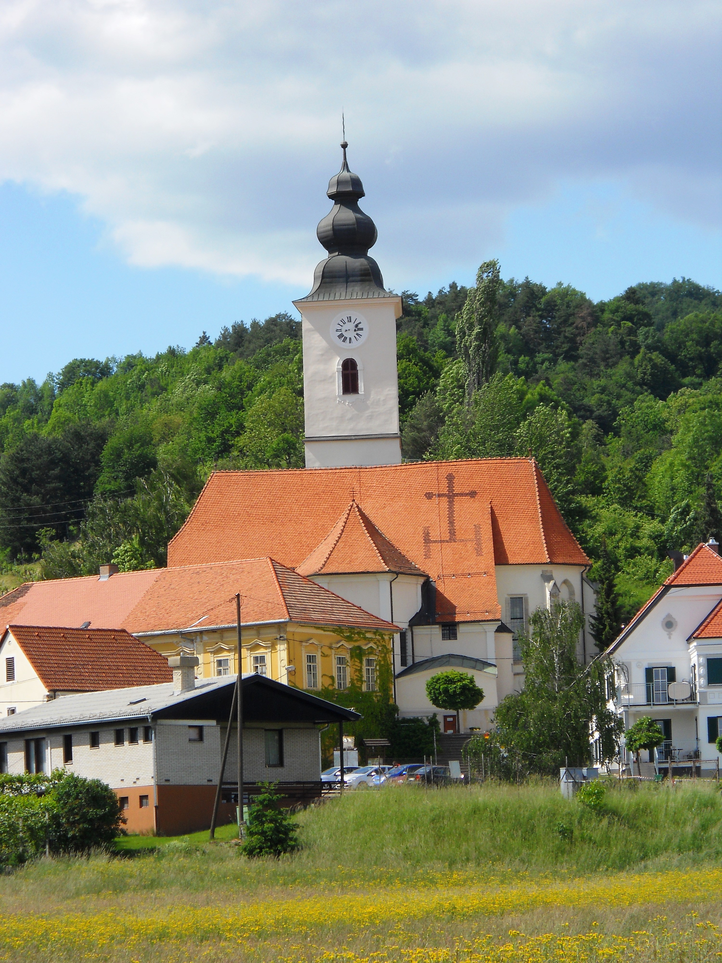 The church of St. Martin. Kamnica, Maribor, Slovenia.